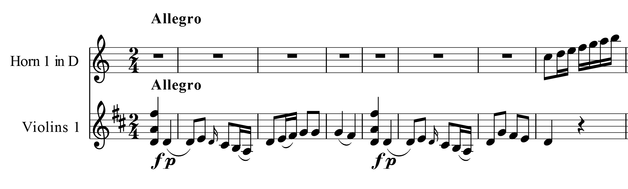 Joseph Haydn, Symphony No. 72, first movement, bar 1-8